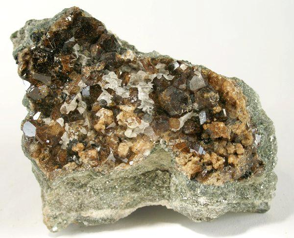 Vesuvianite, Anorthite Locality: Monte Somma, Somma-Vesuvius Complex, Naples Province, Campania, Italy (Locality at ) Size: 6.4 x 5.5 x 4.8 cm. The famous Mt. Vesuvius near Naples, Italy is the Type Locality for vesuvianite and the feldspar anorthite. This excellent, older specimen is richly covered with gemmy and lustrous, brown vesuvianite crystals to 9 mm and is beautifully accented with glassy, white anorthite lathes. The vesuvianites have striking flashes of yellow-orange fire. Very highly representative combination material from this famous locale. Ex. Mullane Collection and accompanied by a 1960s-1970s era Burminco label.